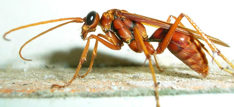 Pompilid Wasp from Coorg, India